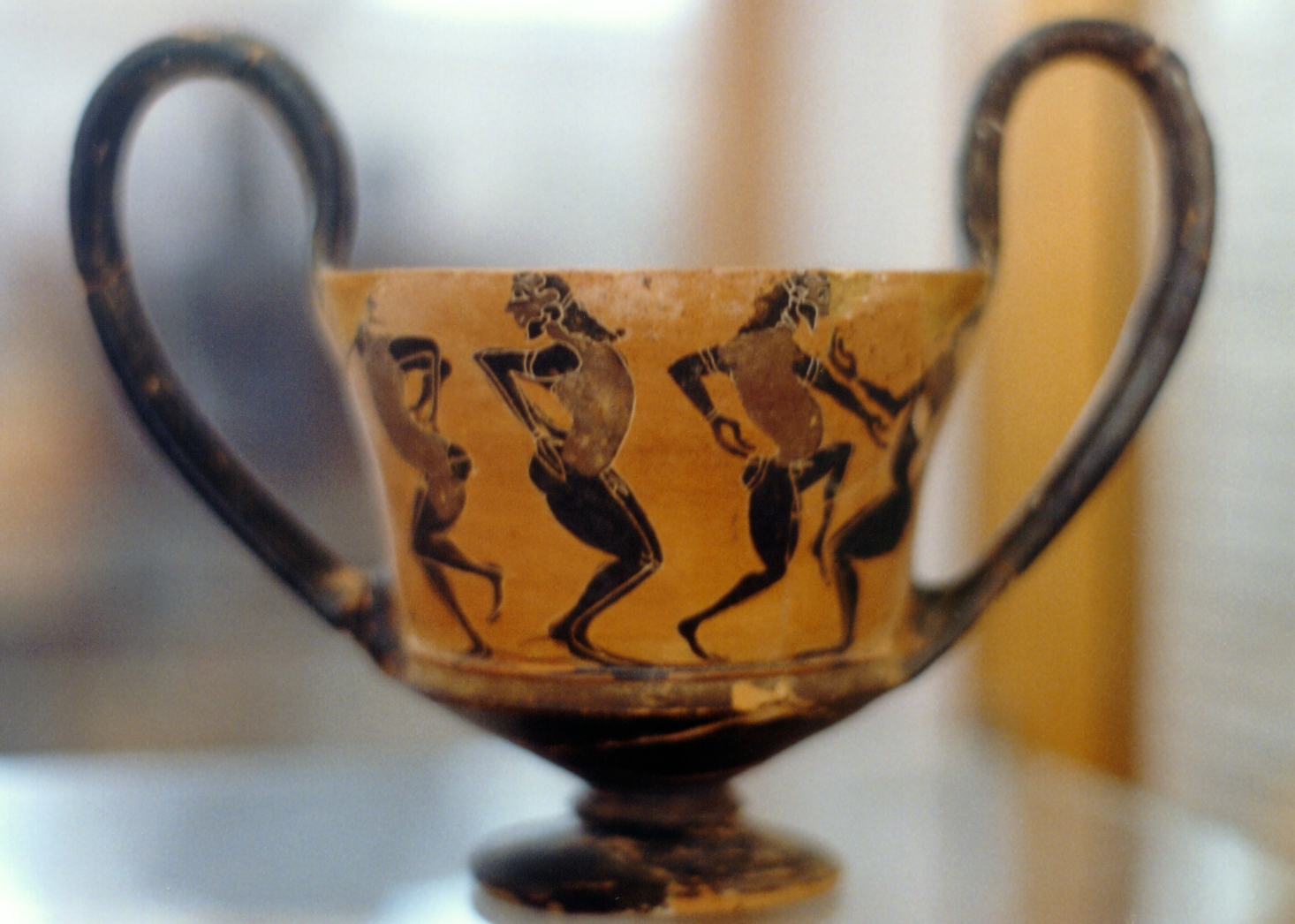 Black-figure kantharos. Satyrs dancing. Archaeological Museum of Thebes.